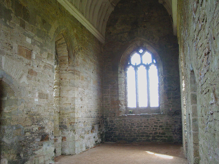 The interior of St Catherine's Chapel, Abbotsbury, Dorset. Photograph taken by David Edgar on 14th May 2006.